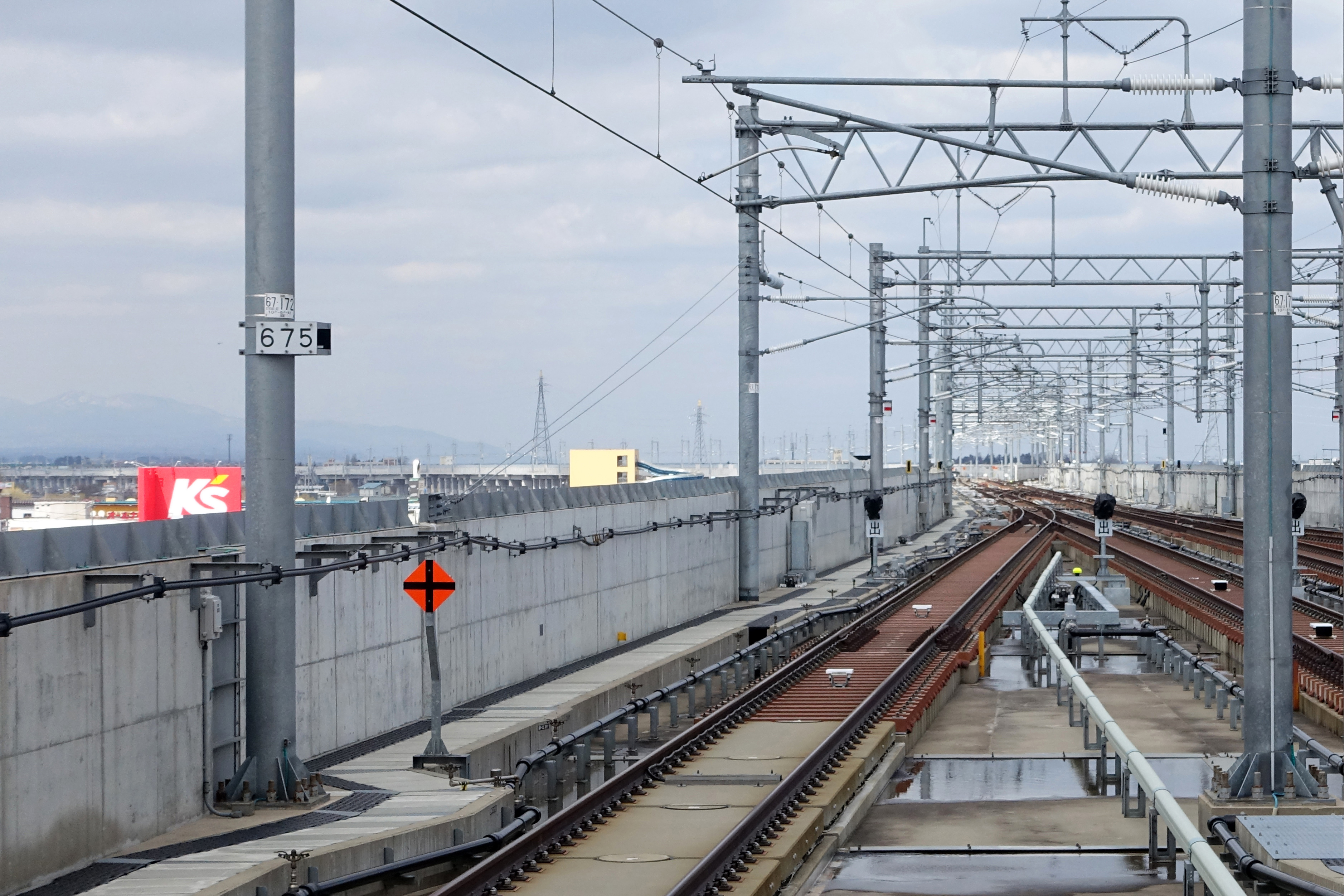 Beginning of the Hokkaidō Shinkansen at Shin-Aomori station.